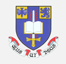 Crest for the Dublin boy's school. Slightly modified and on a grey background.